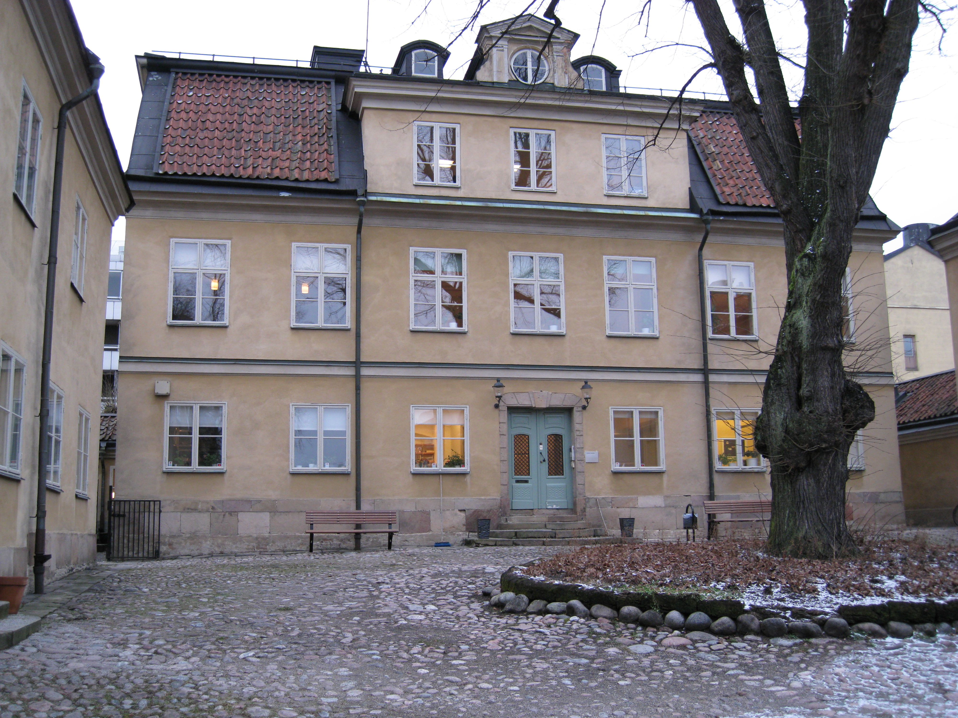 Wirwachs malmgård in Stockholm, Sweden